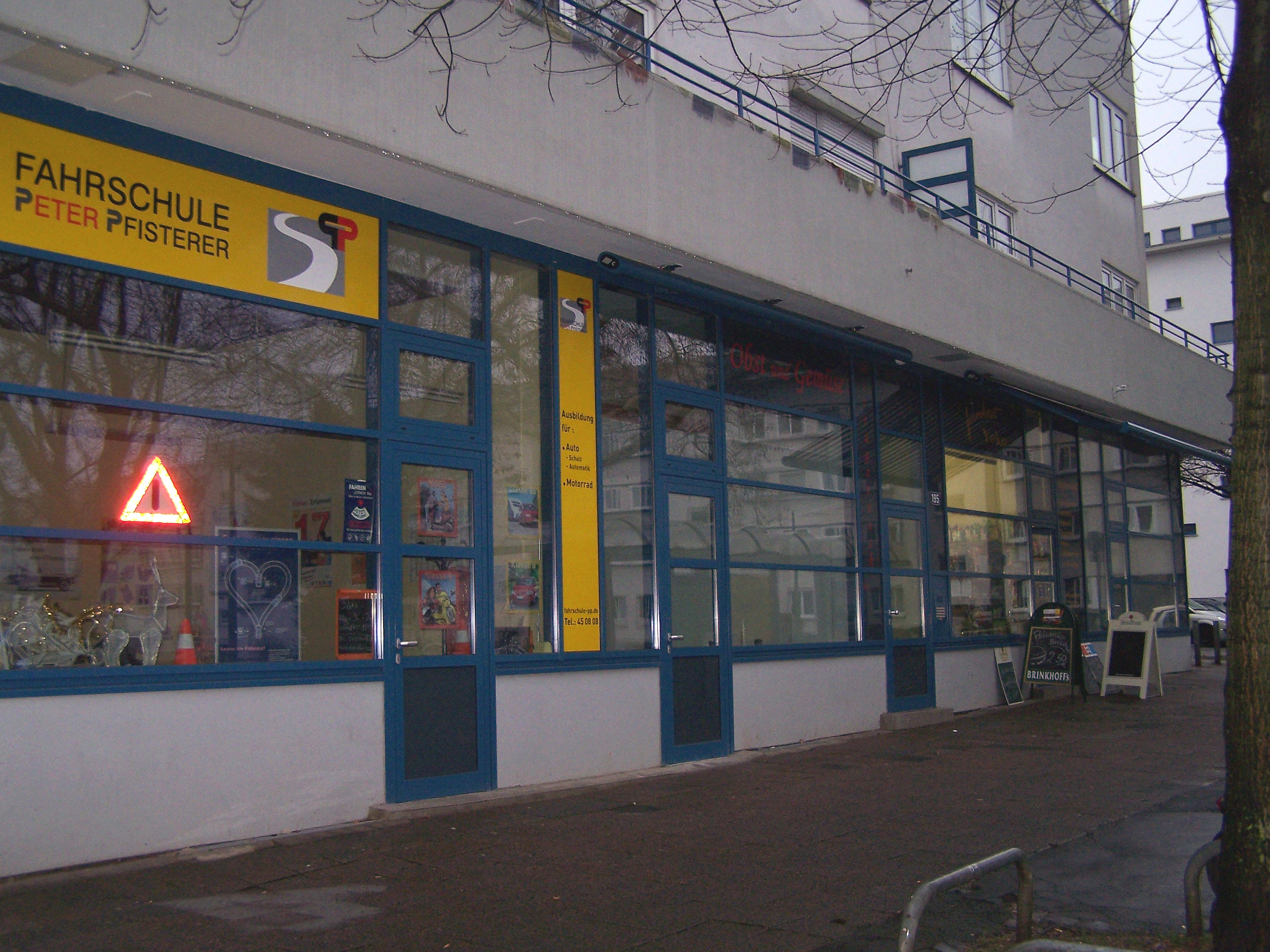 Shops at the Ernst-May-Platz in houses of the Bornheimer Hang settlement in Frankfurt am Main-Bornheim, in December 2009